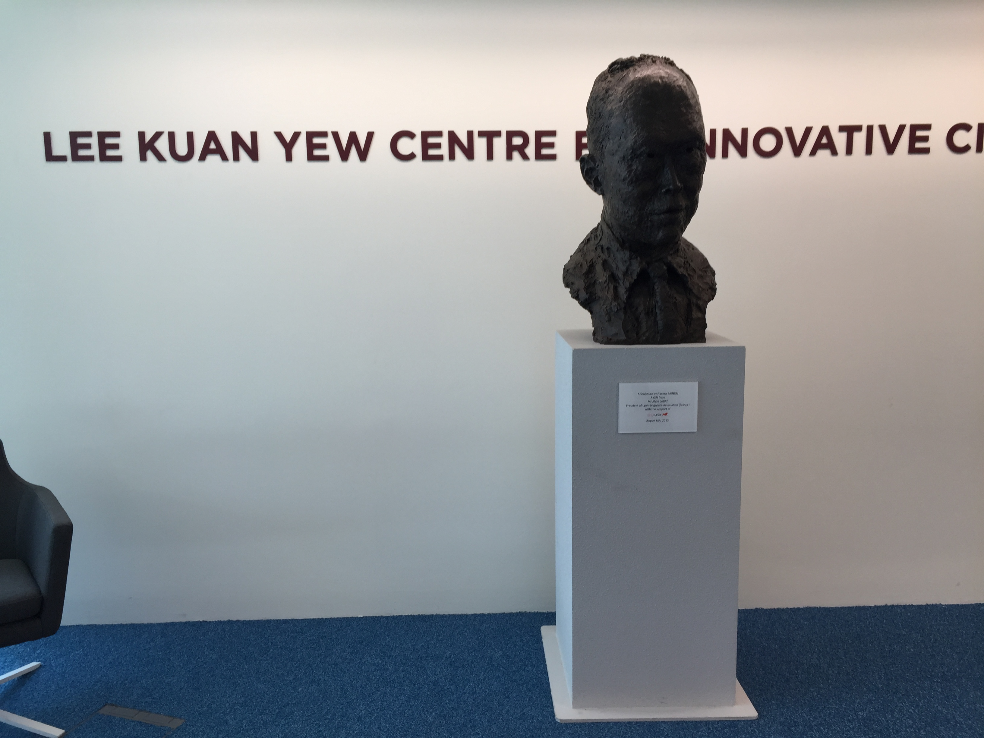 A bust of the former Prime Minister of Singapore, Lee Kuan Yew, by Nacera Kainou at the Lee Kuan Yew Centre for Innovative Cities, Singapore University of Technology and Design. It was a gift of Alain Labat, the President of the Lyon–Singapore Association (France), on 6 August 2013.